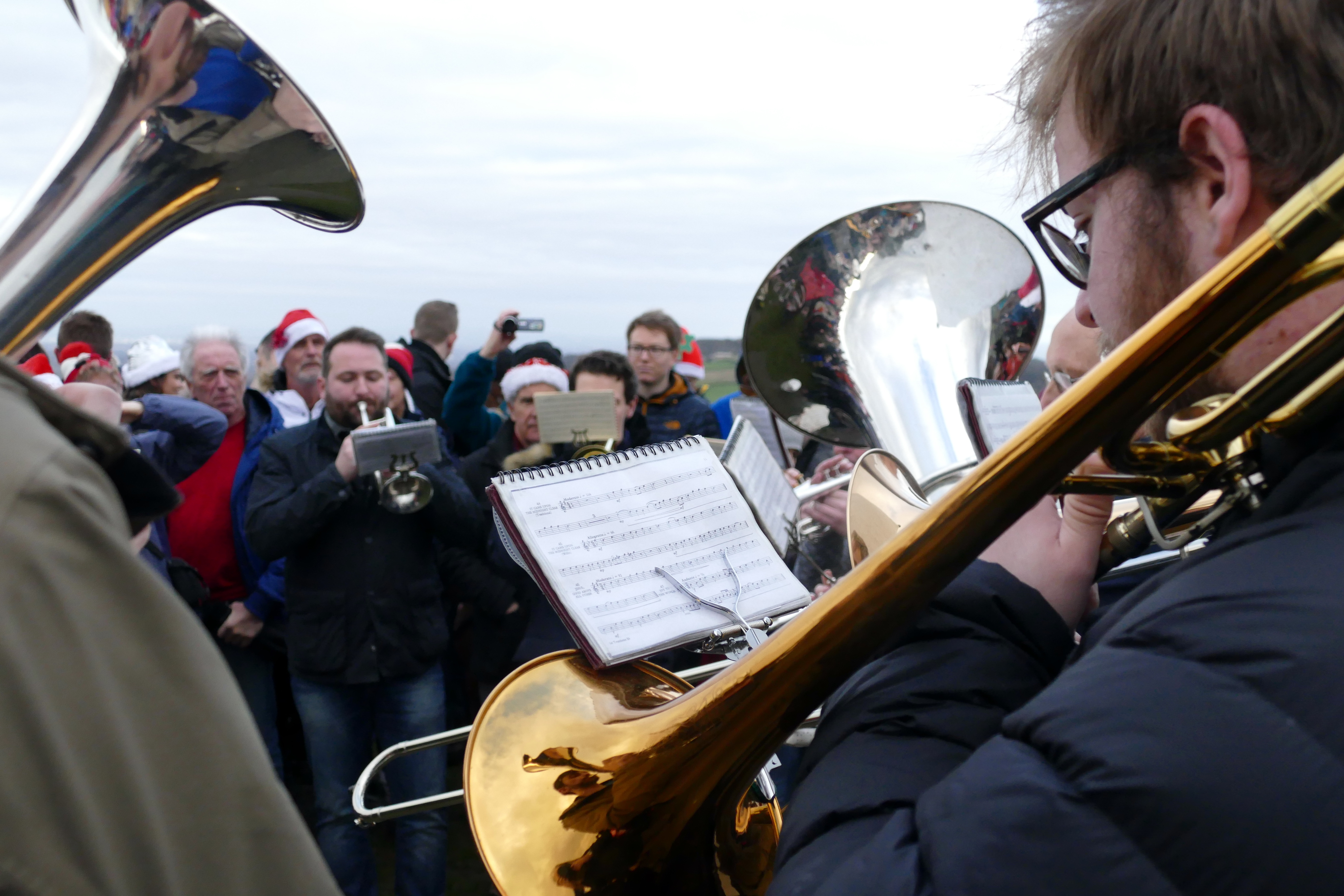 25.12.16 Christmas at White Nancy